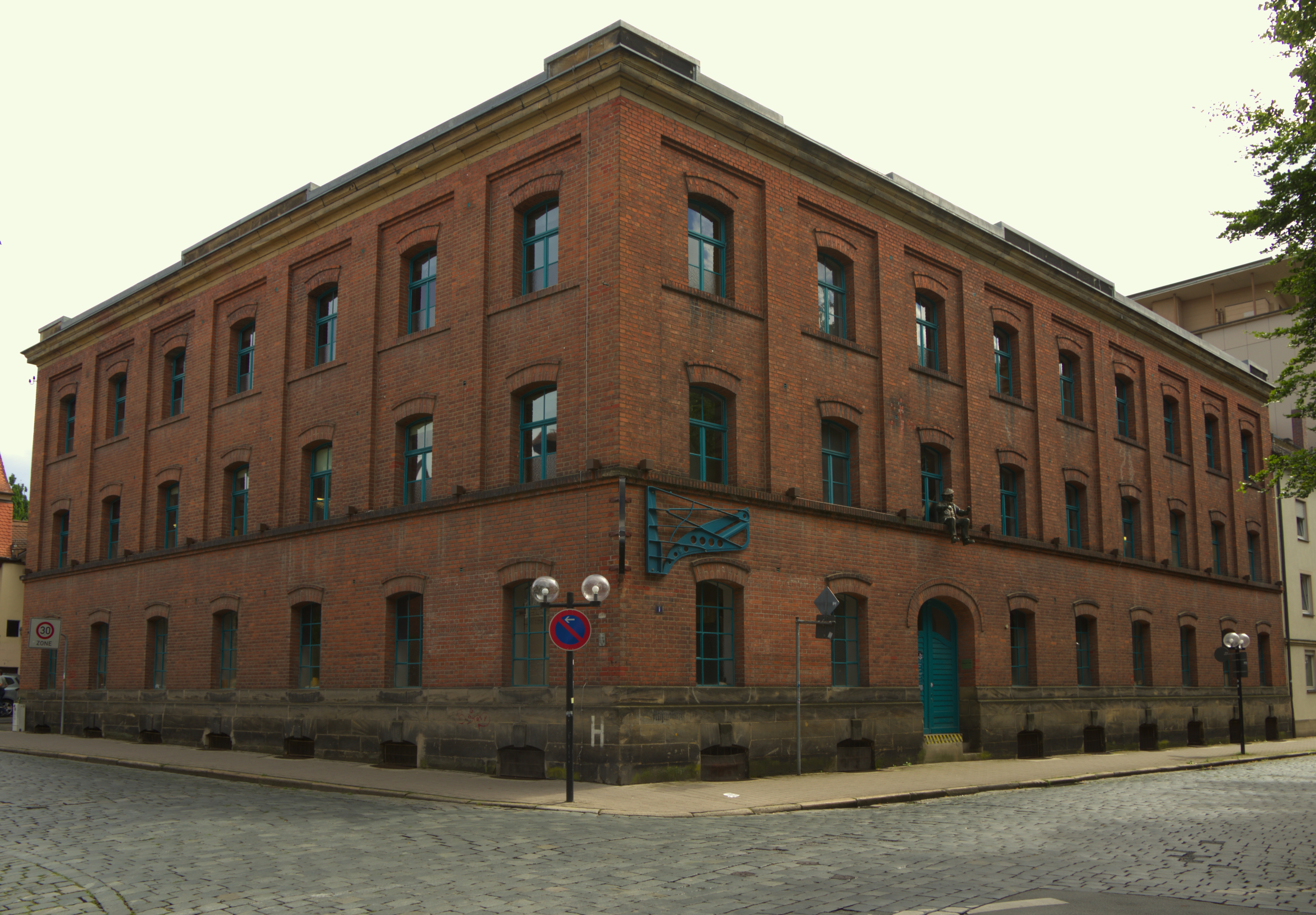 Workshop of the piano manufacturer Steingraeber & Söhne in Bayreuth.